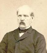 John Williams, US Representative from New York